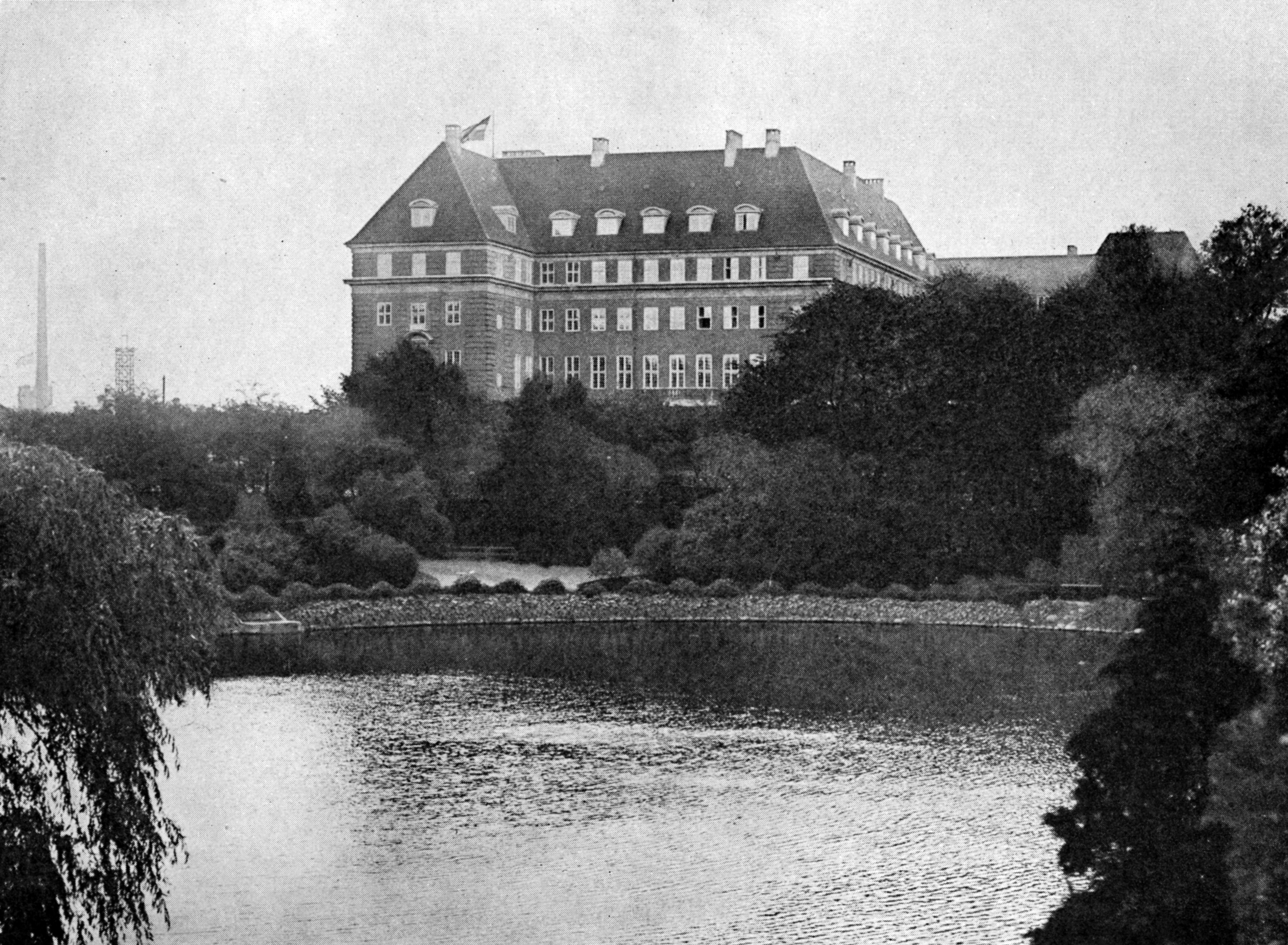 The second headquarters of Østifternes Kreditforening, built 1916, demolished 1954